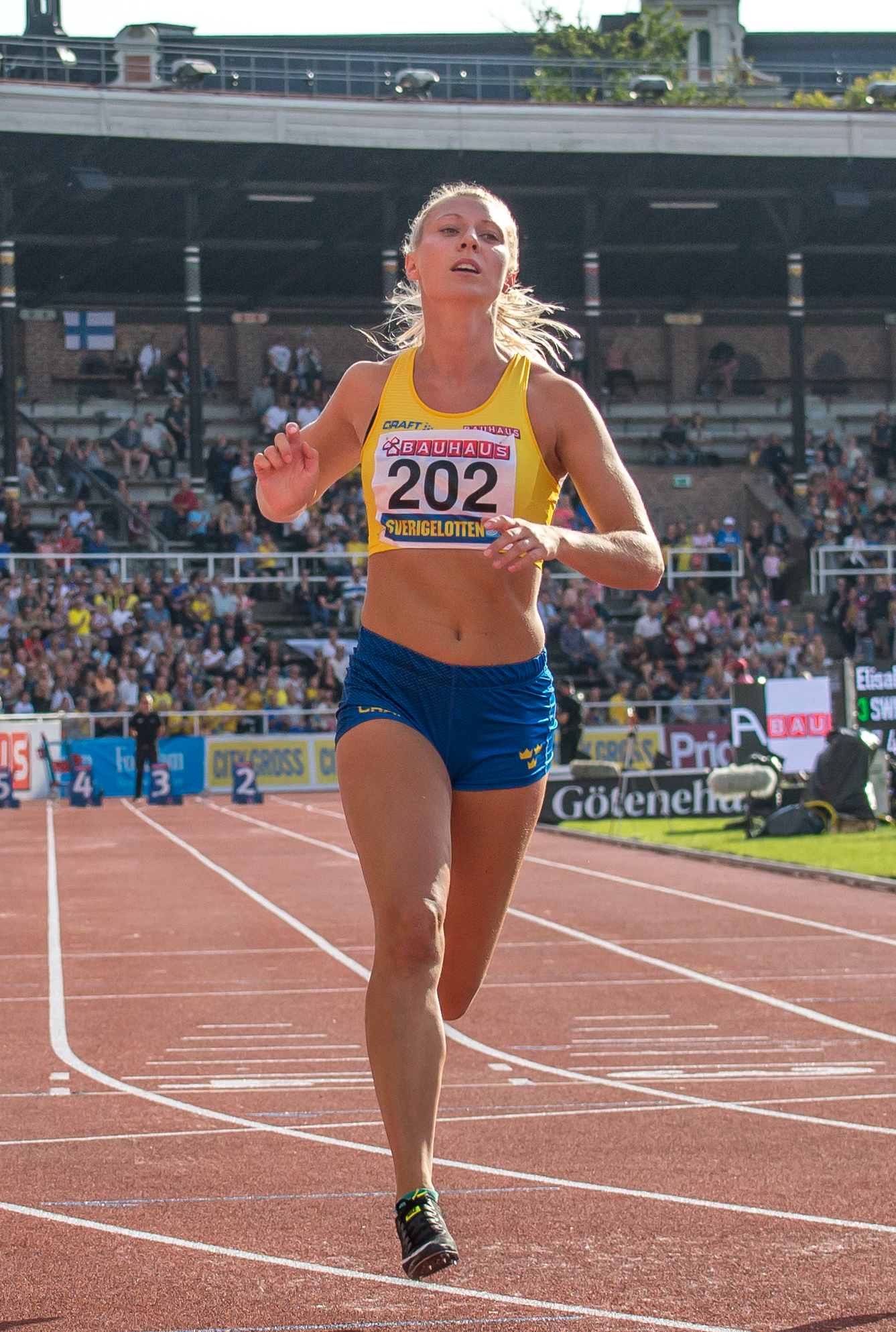 Daniella Busk during the Finland-Sweden athletics international 2019 at the Stockholm Stadium in August 2019.